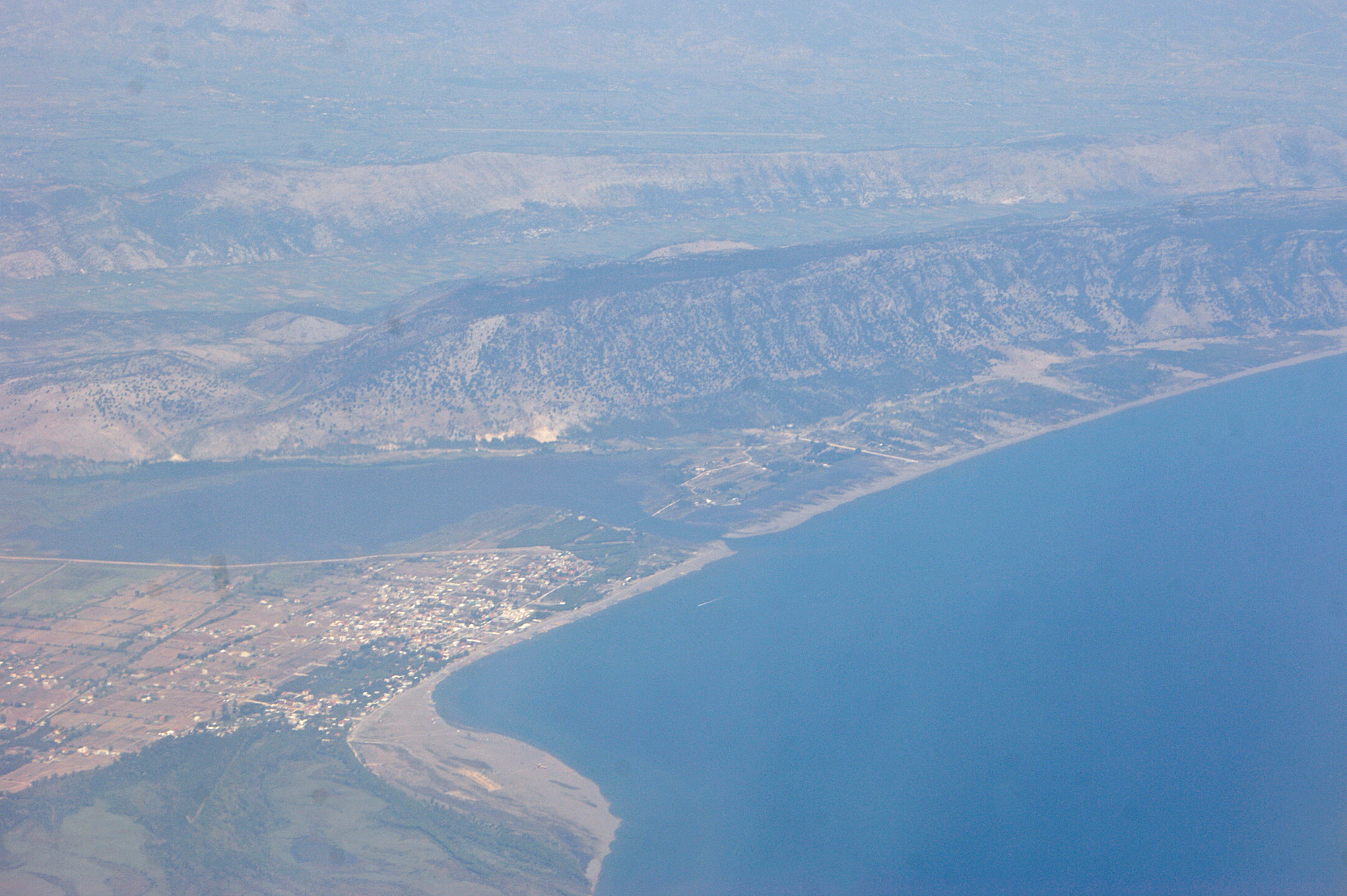 The shore of the Drin Gulf in Northern Albania with the sea resort Velipoja.